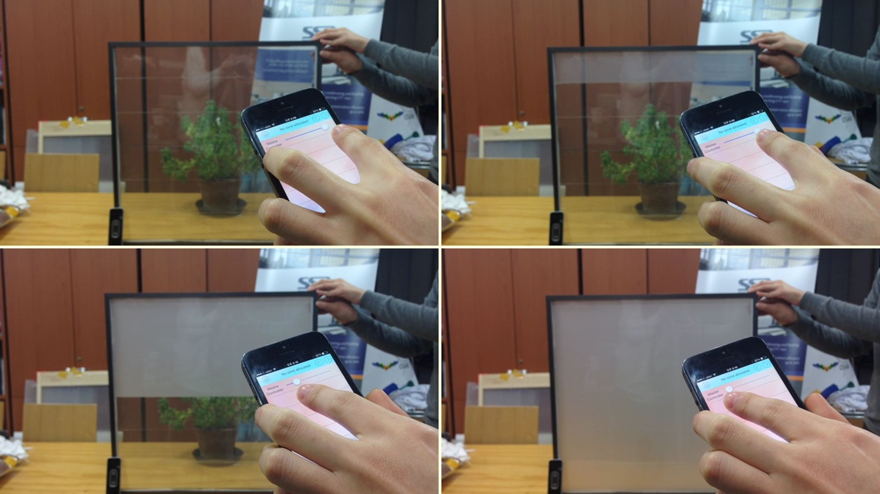 VITSWEL PDLC FILM, SMART WINDOW